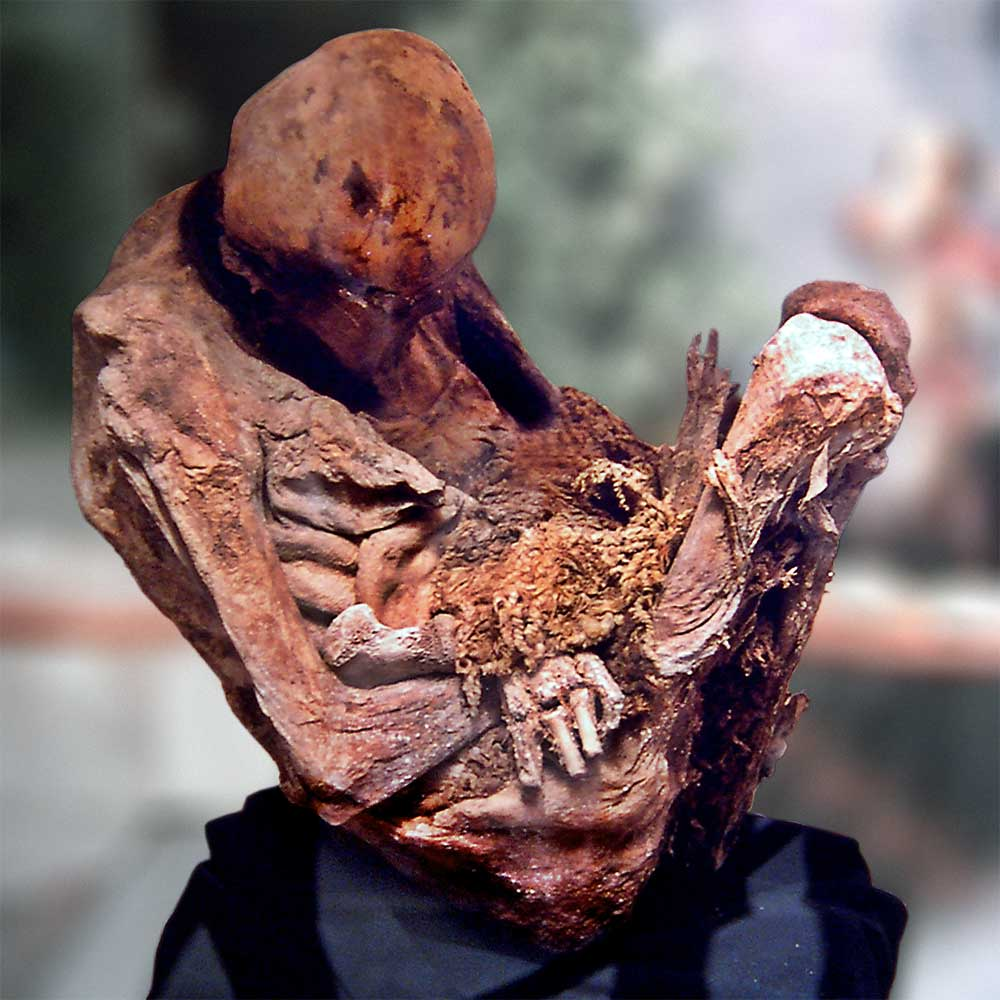 Andean Moche mummy (Perú)